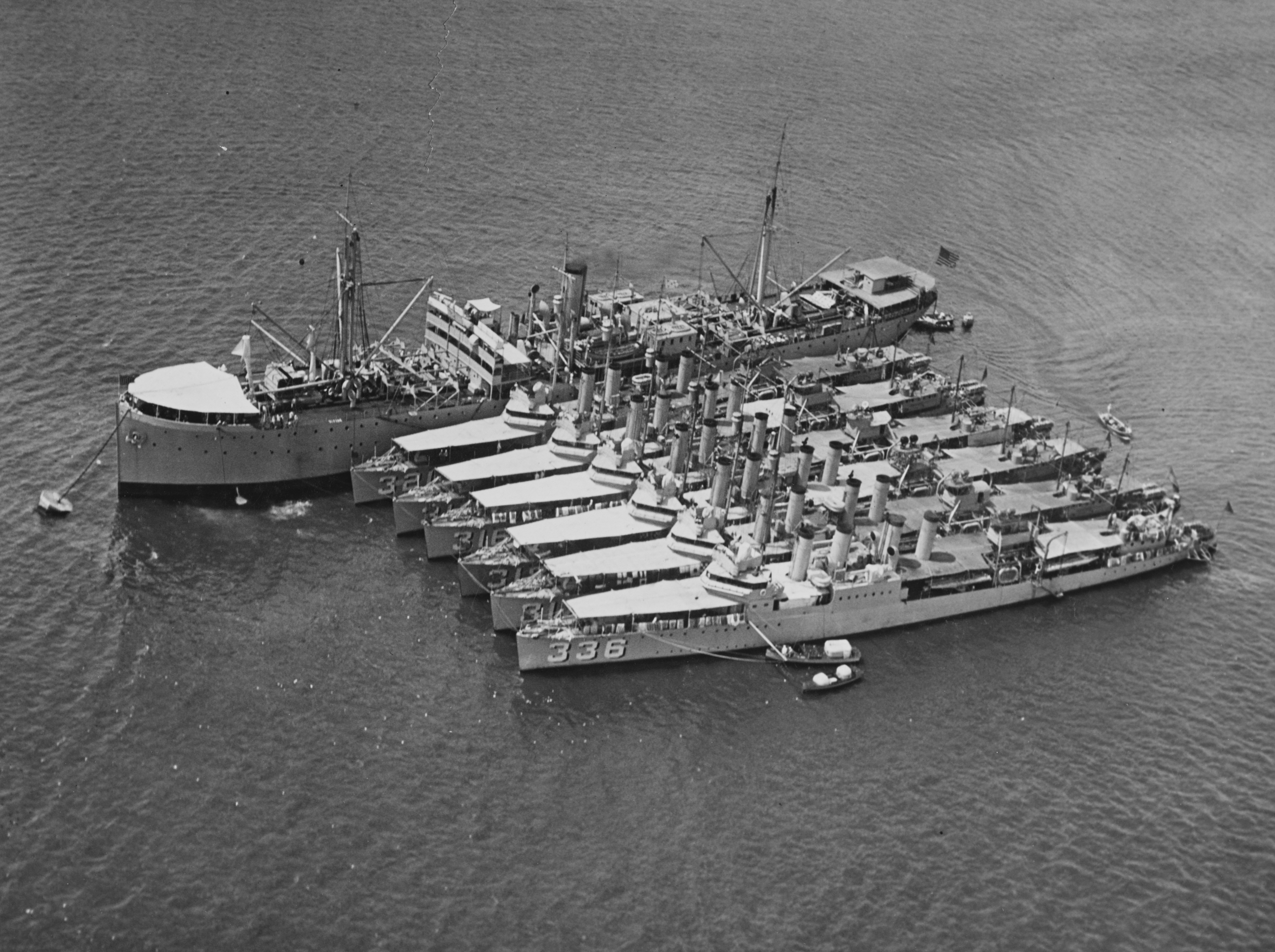 The U.S. Navy destroyer tender USS Altair (AD-11) moored in Pearl Harbor, Hawaii (USA), on 8 February 1925. Among the destroyers alongside are: USS Marcus (DD-321), next to Altair; USS Sloat (DD-316), 3rd outboard of Altair; and USS Litchfield (DD-336), outboard ship in the nest.